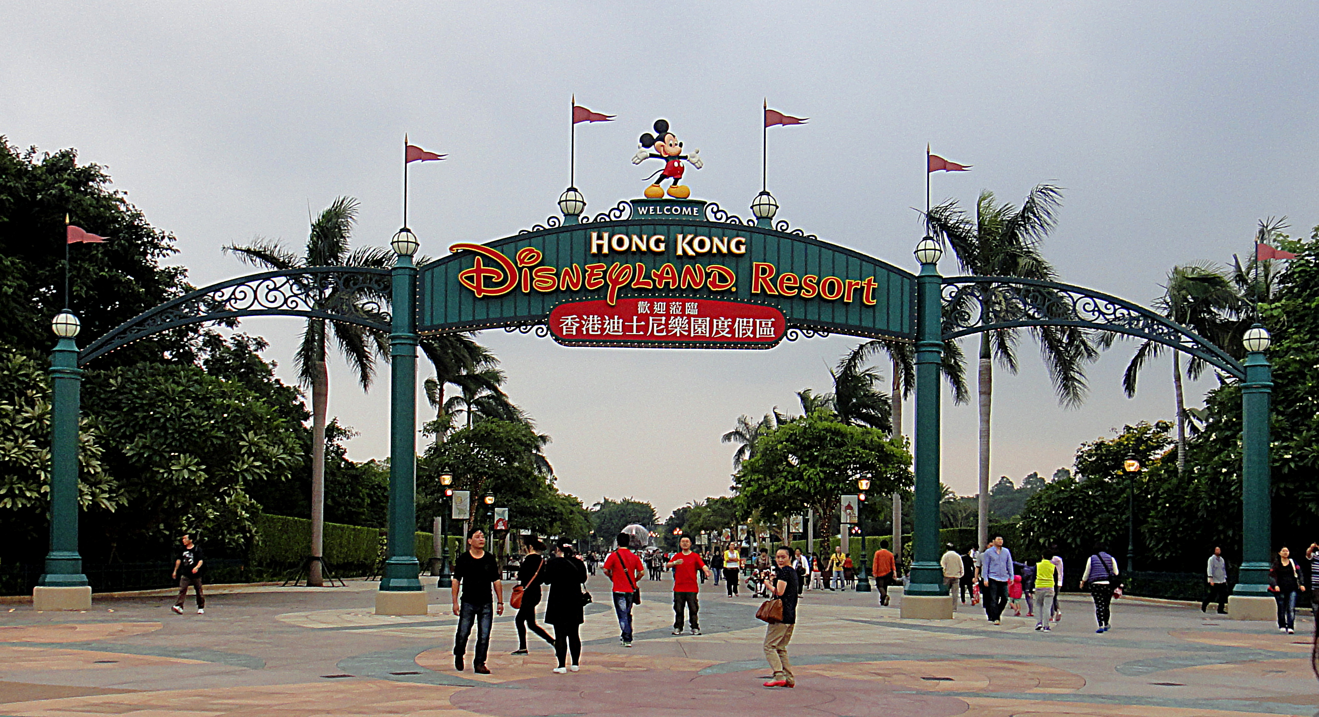 Front Entrance of Disneyland, Hong Kong